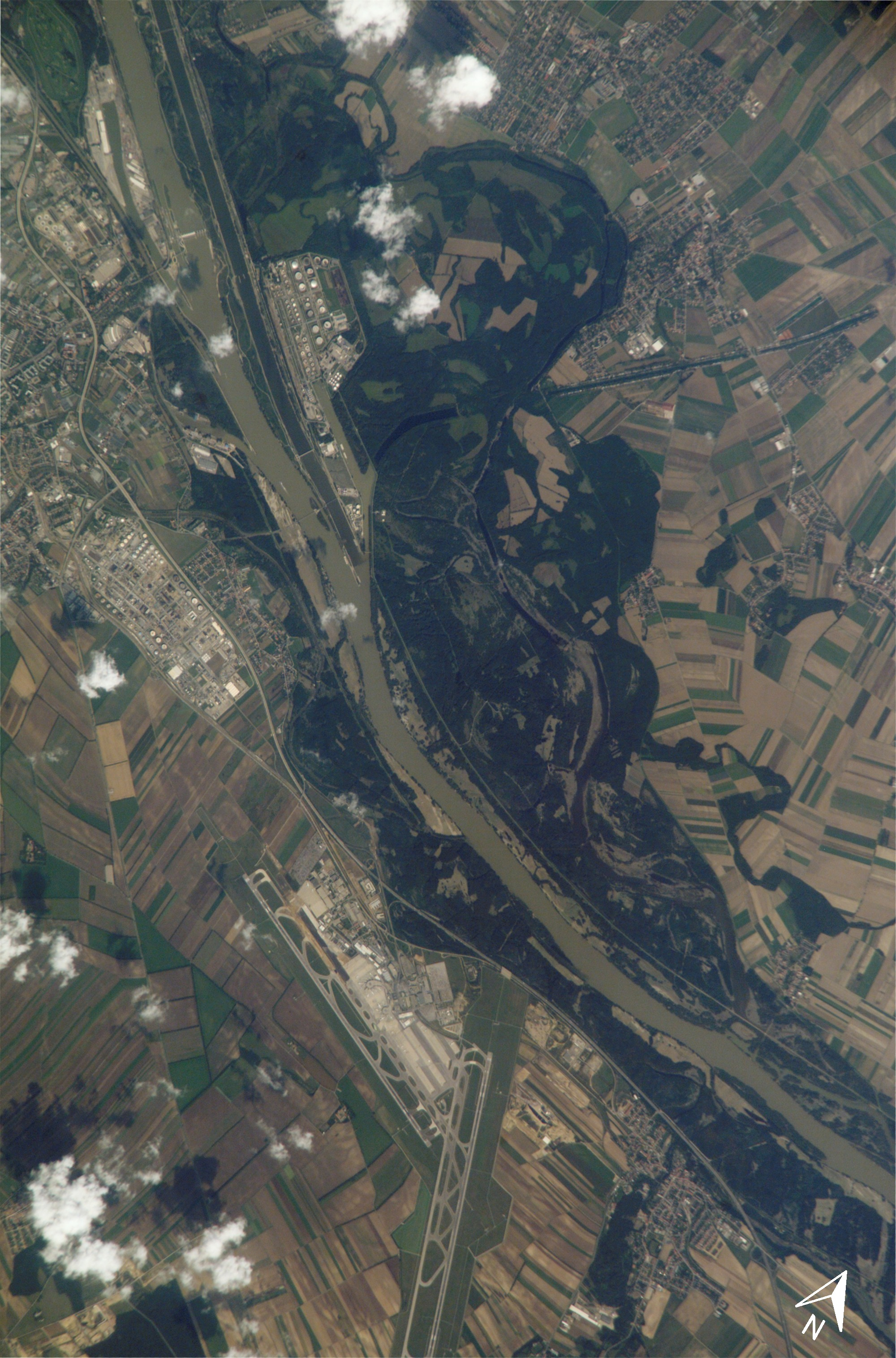 NASA landscape image showing the Lobau (north of the Danube River) and the Vienna Airport, situated east of Vienna in Schwechat, Austria.